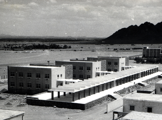 Photograph of the initial buildings of the university in Medina, masterplan by Wahbi al-Hariri-Rifai